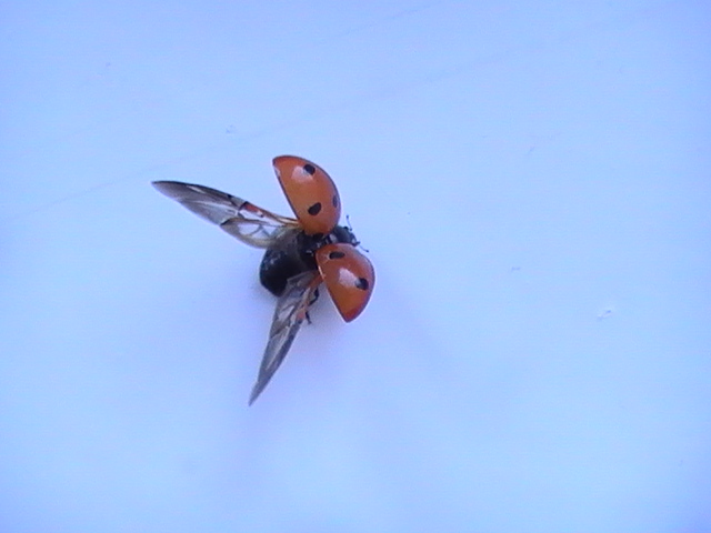 Seven-spot ladybird before departure.